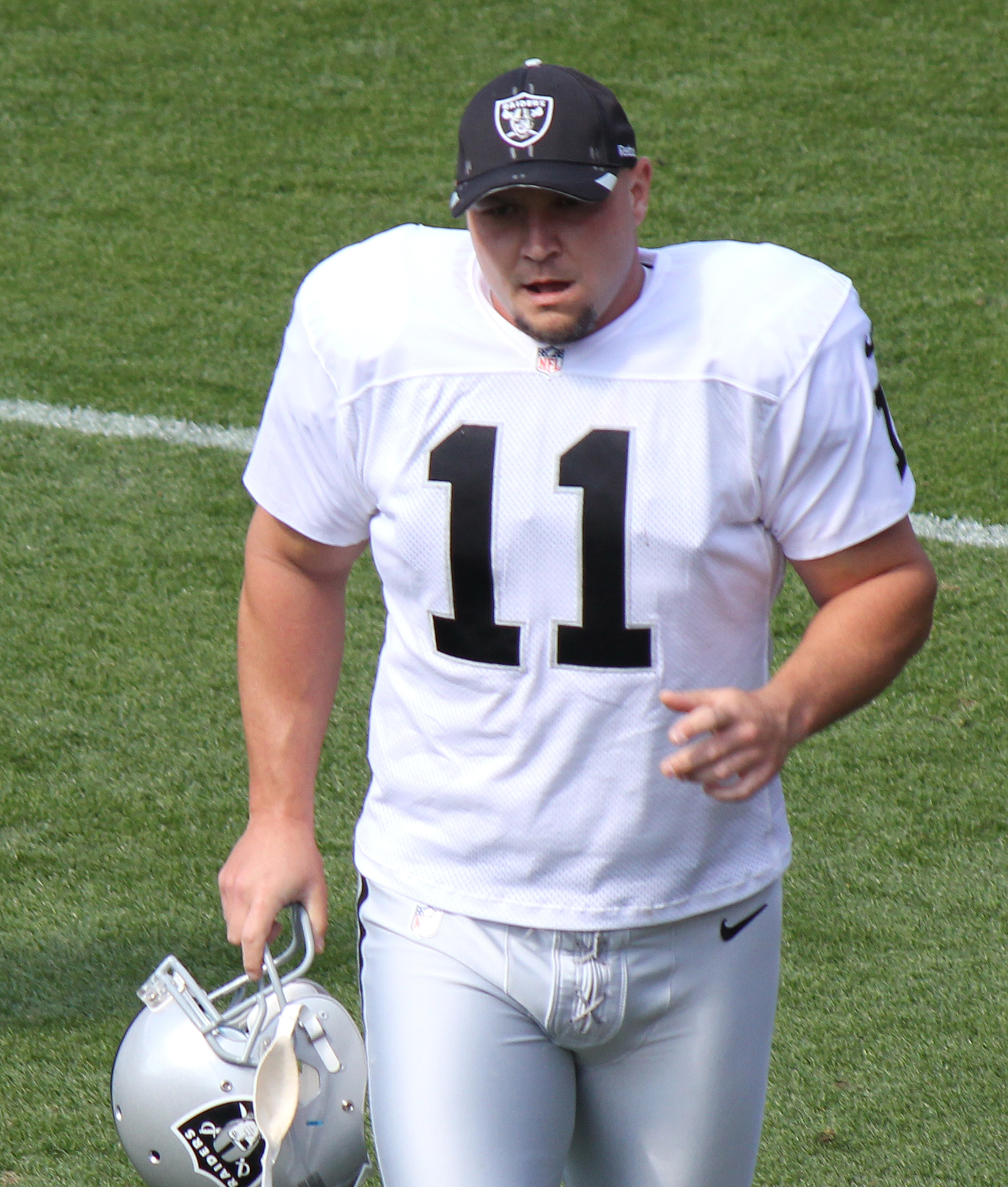 Sebastian Janikowski, a player on the National Football League.